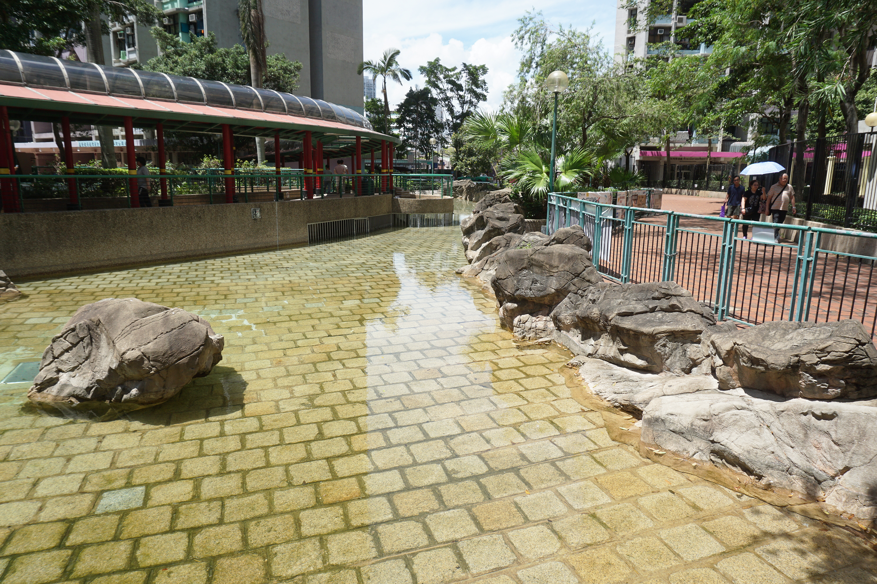 Tin Yiu Estate in Tin Shui Wai, Hong Kong.